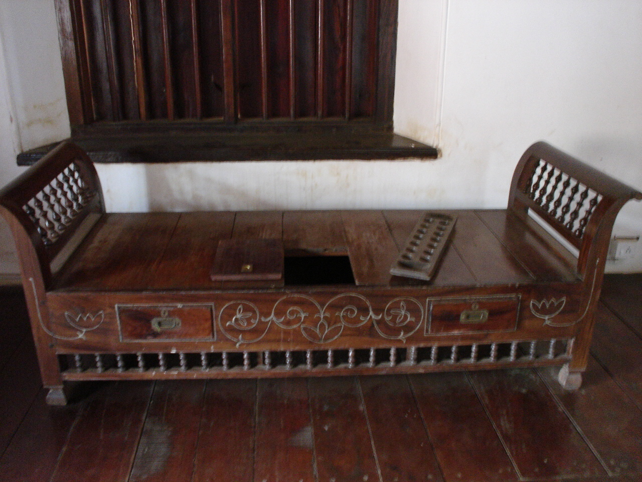 A pathayam at Arakkal palace. Photo by me, Shijaz Abdulla.